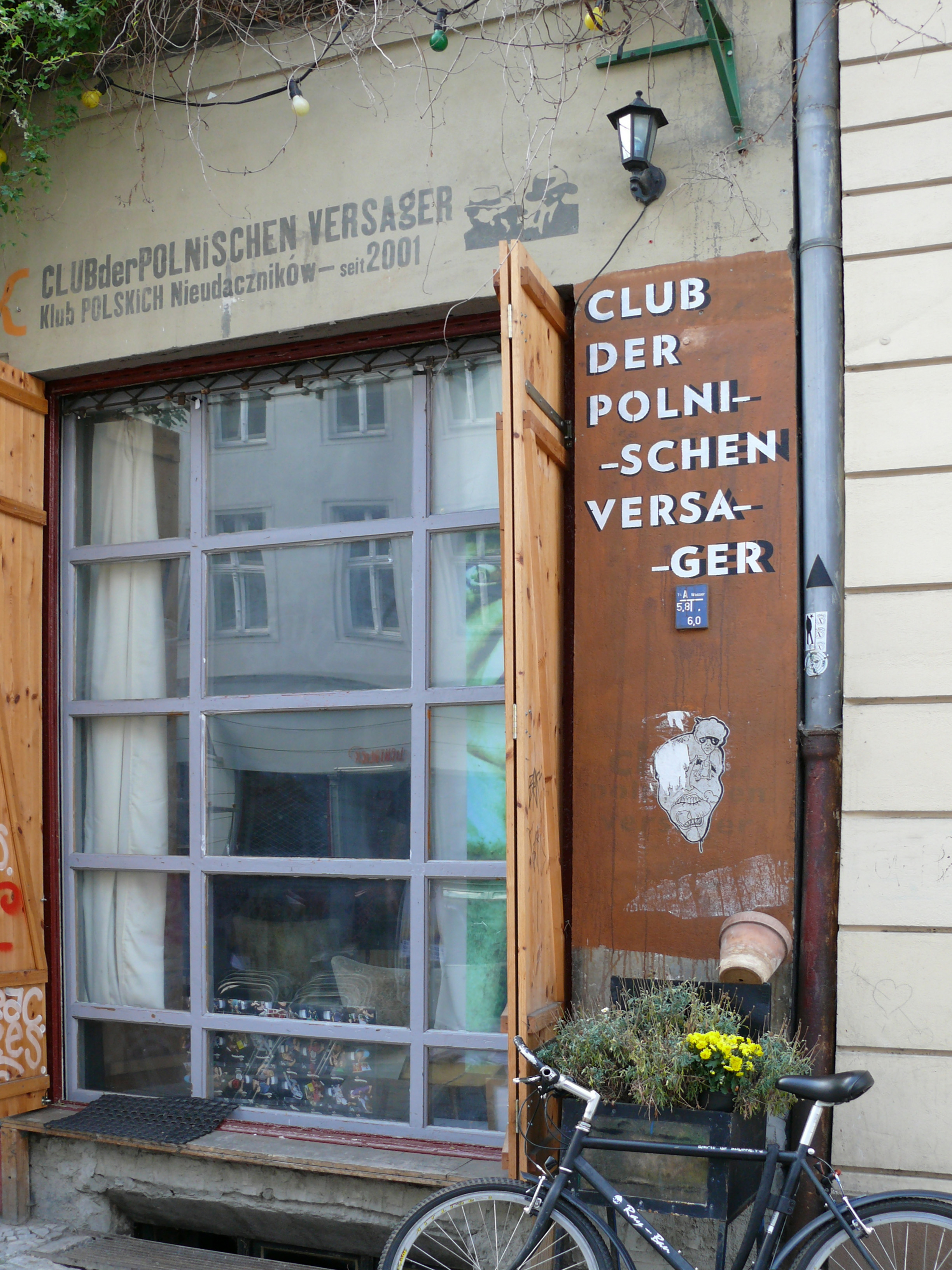 Berlin-Mitte Club der Polnischen Versager